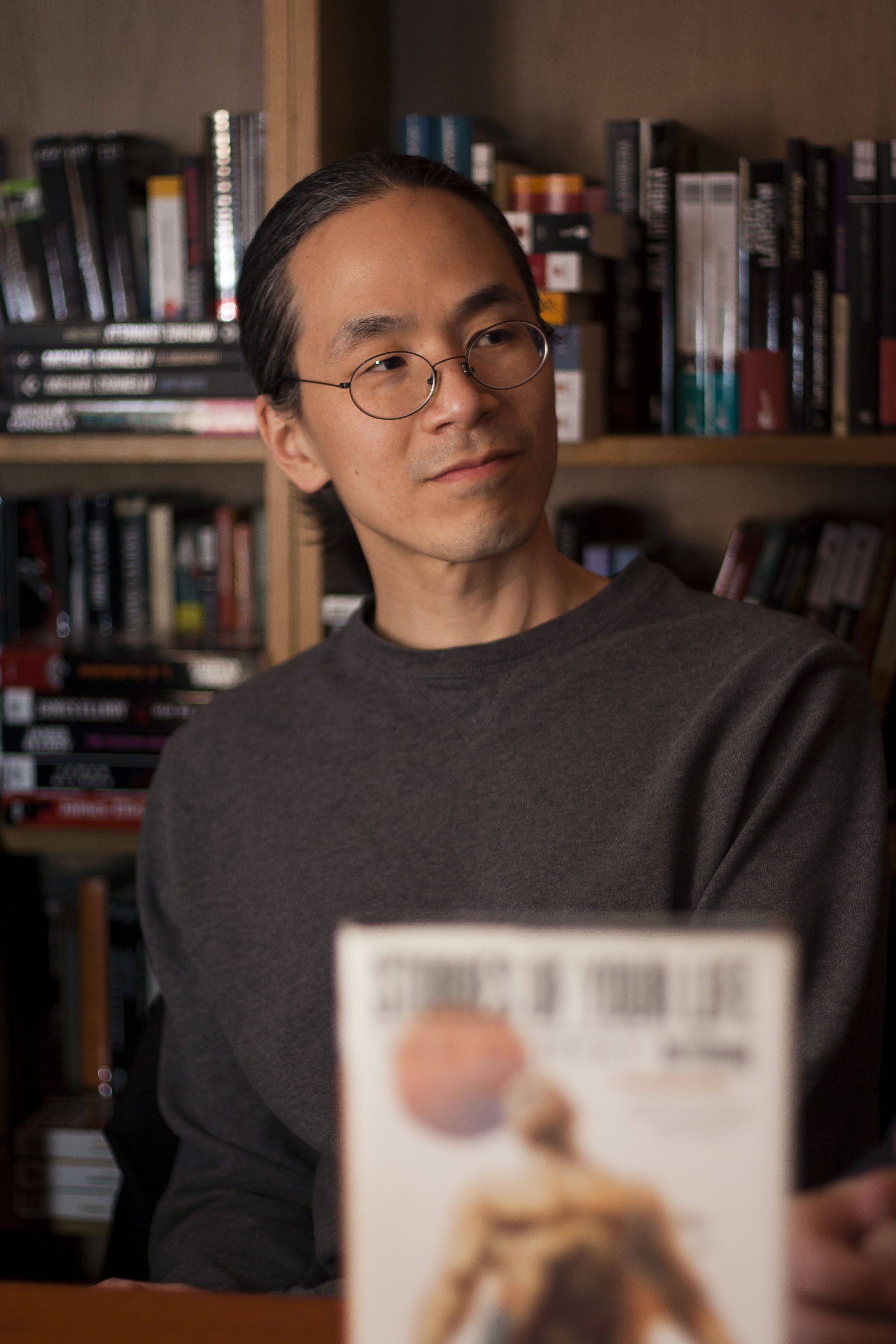 Ted Chiang, American science fiction author. Taken at 'Estudio en escarlata' library, Madrid, Spain, 24/02/2011.